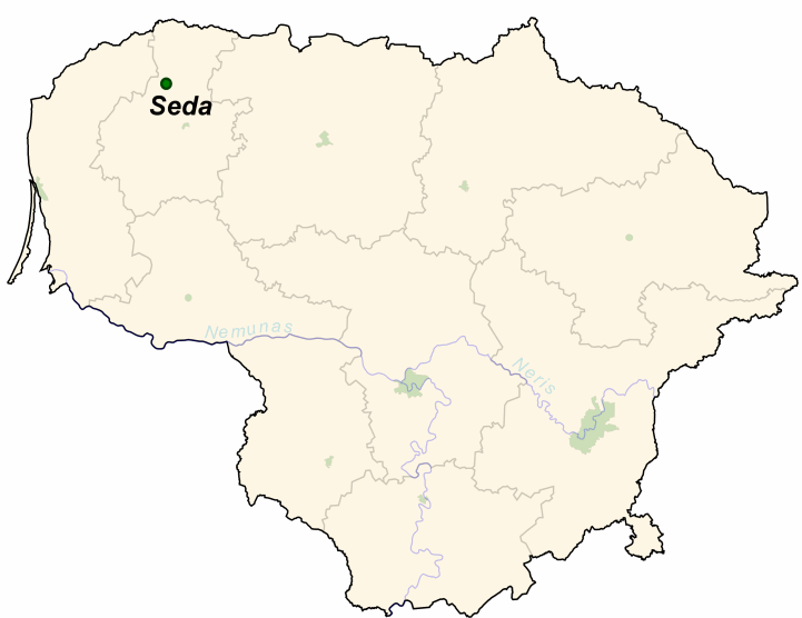 Seda on the map of Lithuania